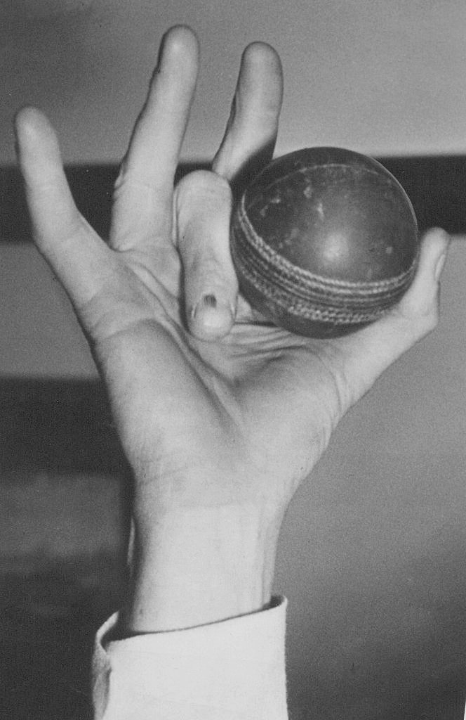 Great Ashes Moments. Australian cricketer Jack Iverson demonstrates his spin bowling grip, 24 November 1950. THE AGE SPORT Picture by STAFF